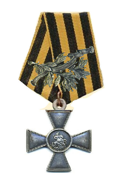 Cross of Saint-George Issue for subaltern officers, 1917